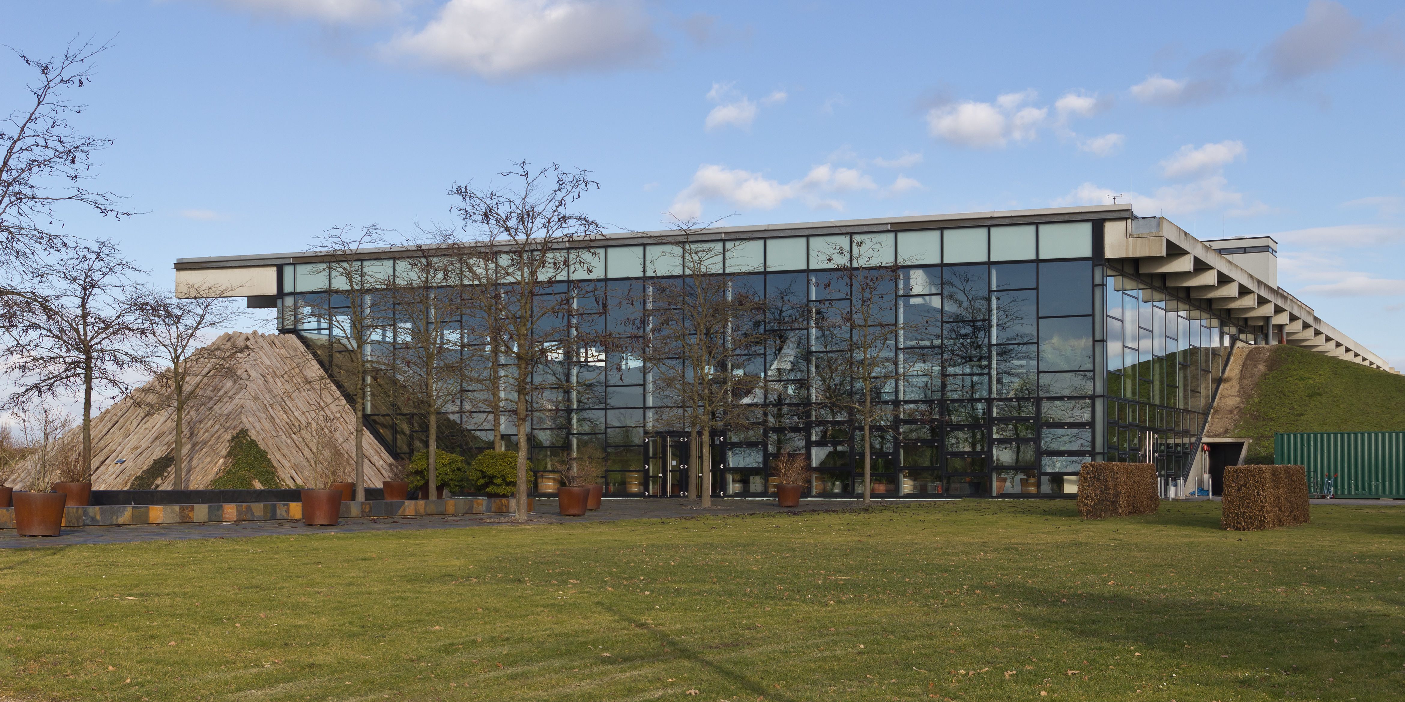 The Potsdam Biosphere (Greenhouse)